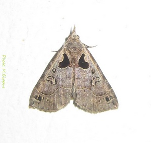 Arsina silenalis moth (Noctuidae - Catocalinae) - Guenée, 1862 This moth lives in Madagascar, Réunion and Agebra. Width is (estim.) approx. 12 mm.